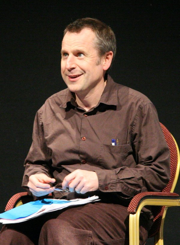 Jeremy Hardy during a recording of the BBC Radio 4 programme You'll Have Had Your Tea.